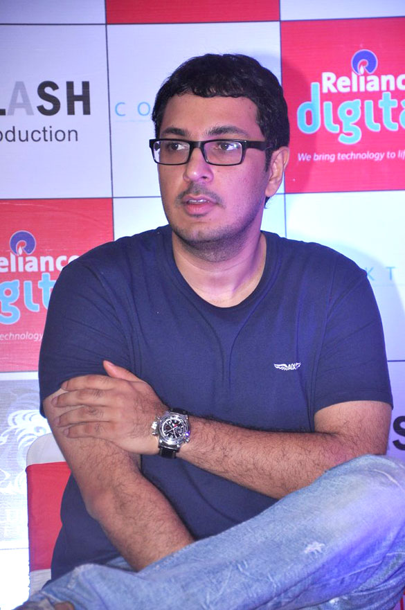 Dinesh Vijan promotes 'Cocktail'